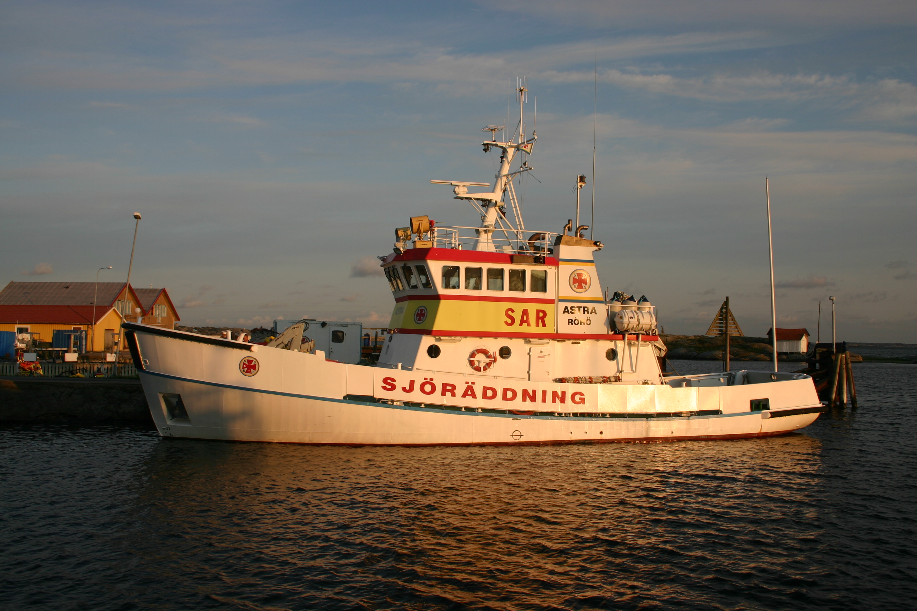 SSRS Rescue "Astra" Rörö, Sweden